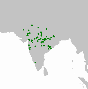 Spot distribution map of Amandava formosa generated using BirdSpot 3.6